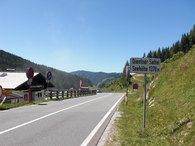 Dientner Sattel summit, coming from the west